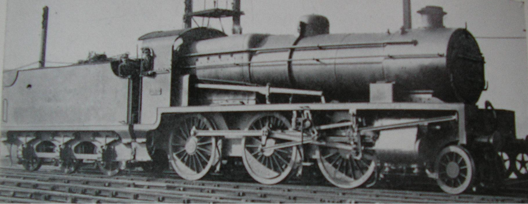 South Eastern and Chatham Railway official photograph of Maunsell N1 prototypoe No. 822, taken at Ashford works in 1922. Image inherited by the Southern Railway (UK) upon Grouping in 1923, and as such, all copyright regarding official documents of the Southern Railway (UK) and its predecessors was passed on to British Railways (a former UK Government institution) upon nationalisation in 1948. Therefore, I submit the image in terms of fair use in the view that, to the best of my knowledge, the copyright has expired under the 50 year rule regarding British Government Archives. For further information, see: Dendy Marshall, C. F. and Kidner, Robert: History of the Southern Railway (Hinckley: Ian Allan, 1963).